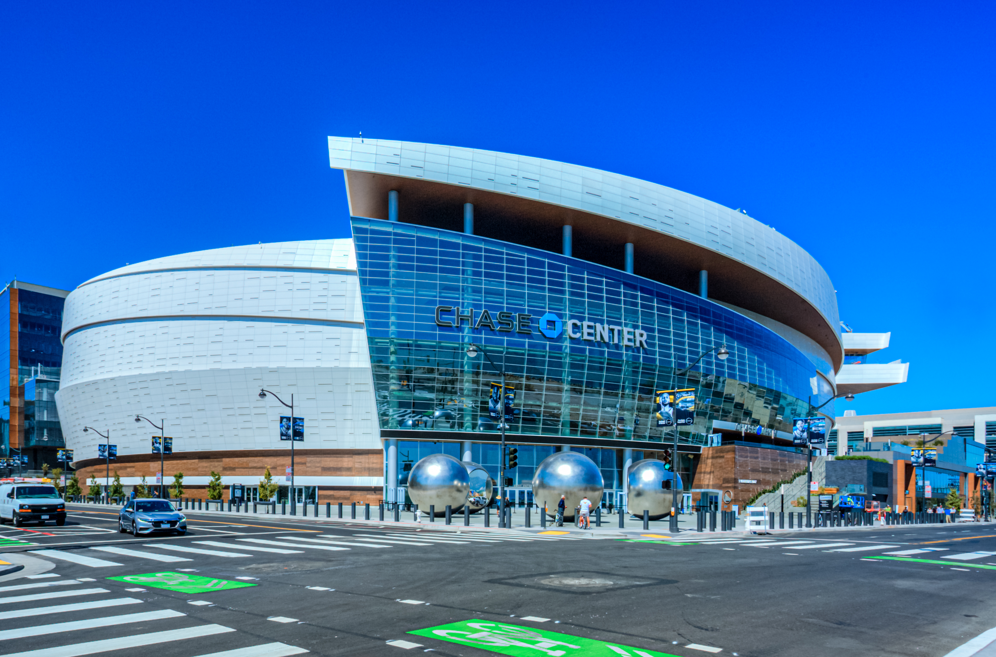 Chase Center